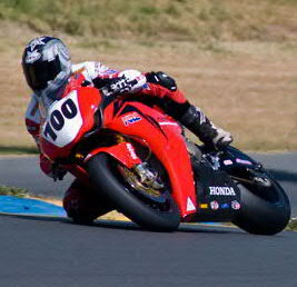 Neil Hodgson at a test day, Infineon Raceway, now known as Sonoma Raceway in Sonoma, California, United States